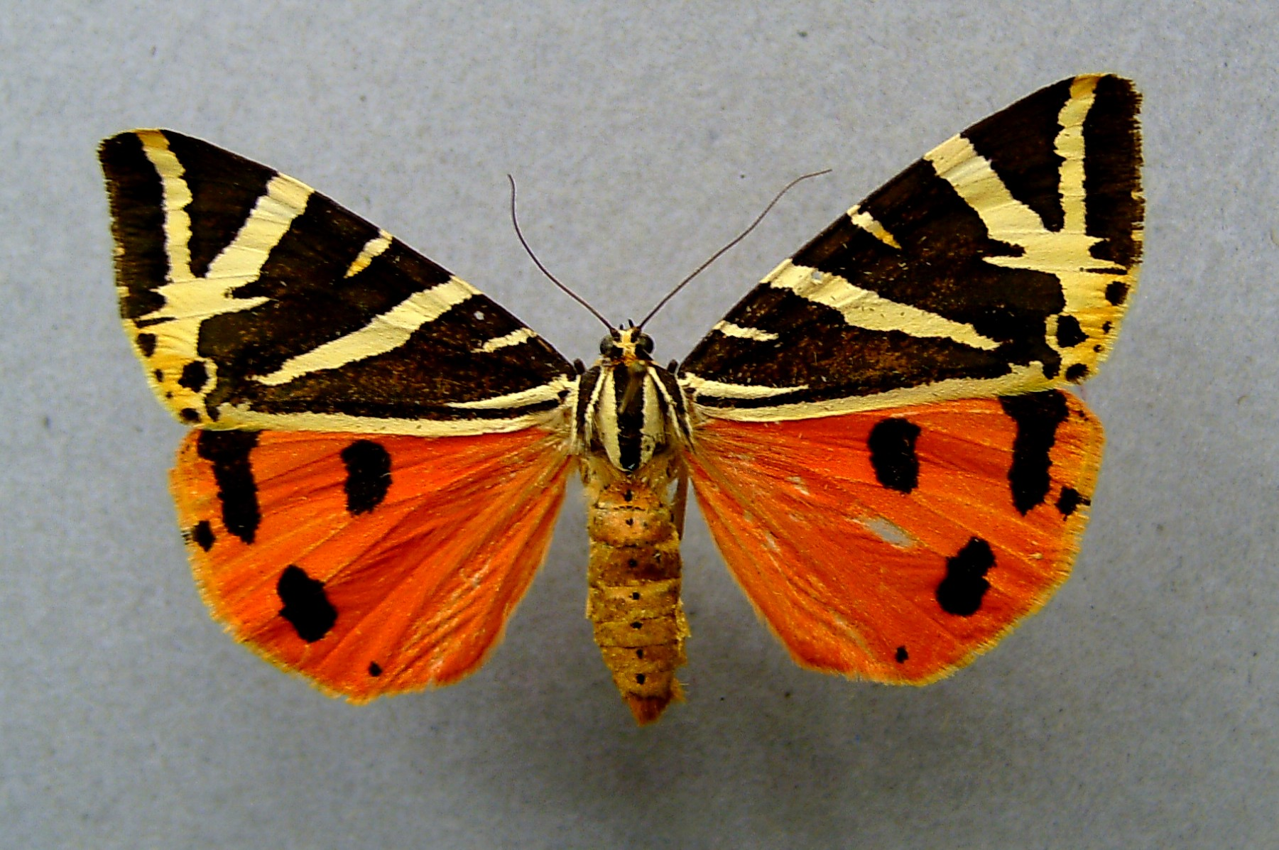 Euplagia quadripunctaria